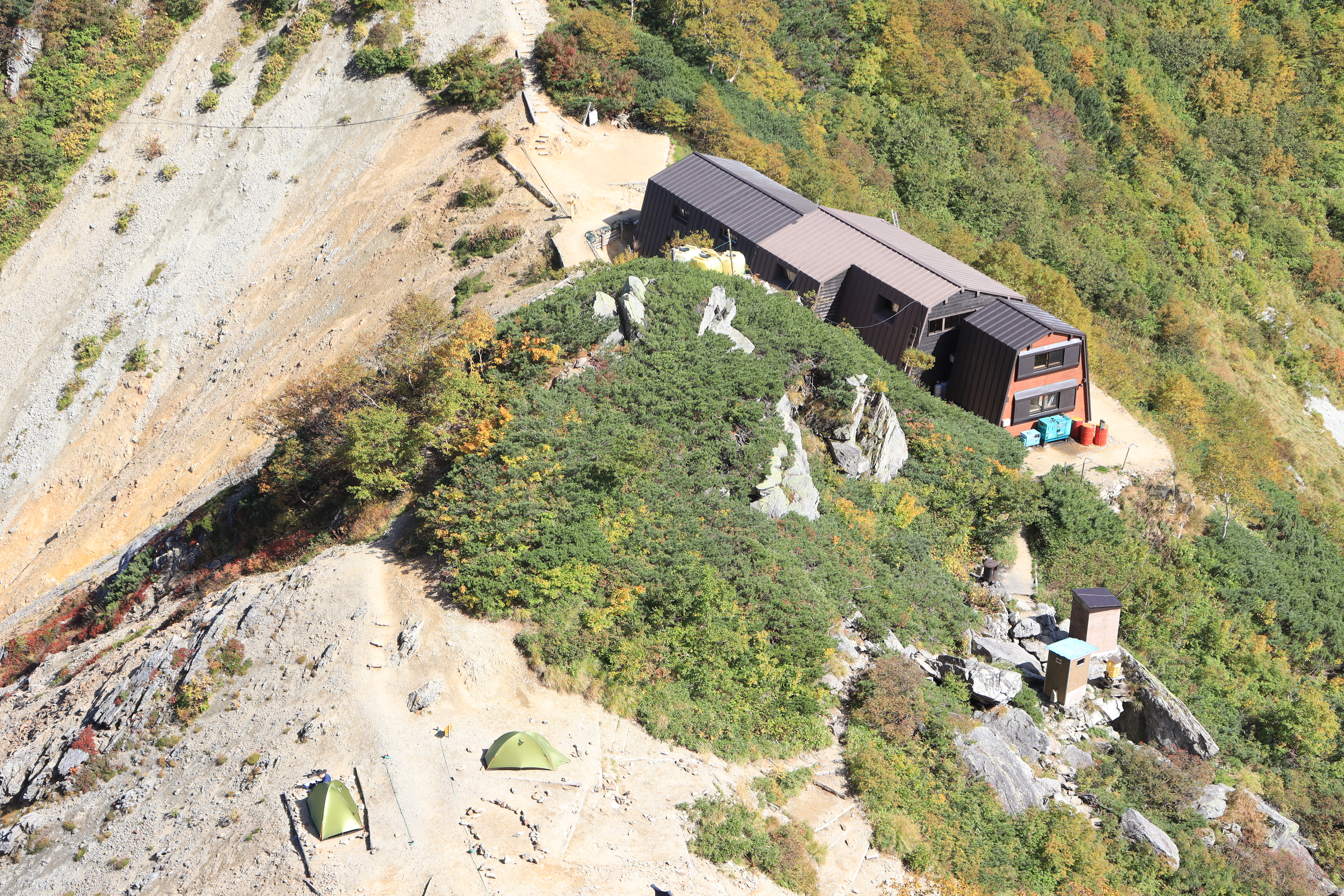 Harinokigoya on Harinoki Pass, Hida Mountains, Tateyama Town, Toyama Prefecture and Omachi, Nagano Prefecture, Japan.